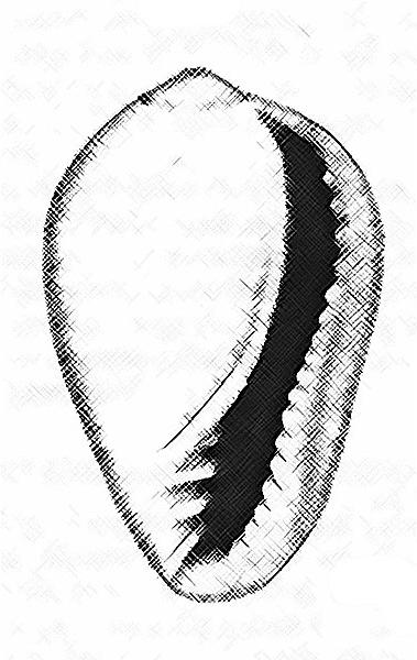 Family: MARGINELLIDAE Fleming, 1828 Subfamily: MARGINELLINAE Fleming, 1828 Genus: Serrataginella Coovert and Coovert, 1995